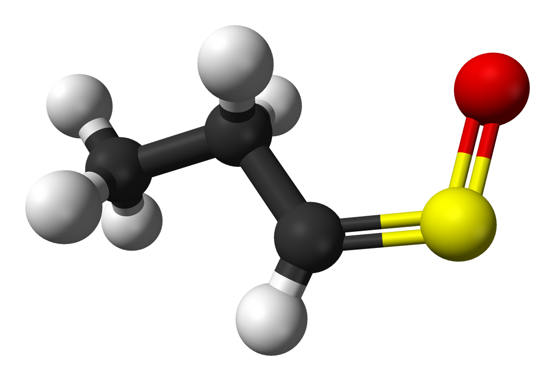 Ball-and-stick model of the syn-propanethial-S-oxide molecule